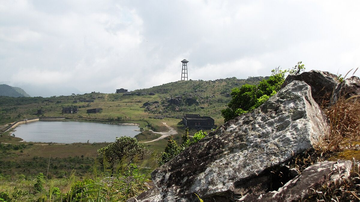 Bokor Hill Station Plateau, Cambodia